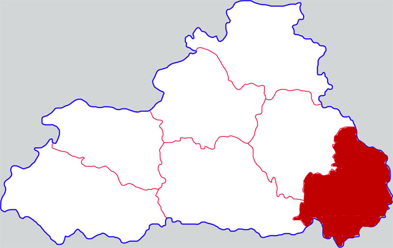 Location of Shangnan county in Shangluo city, China